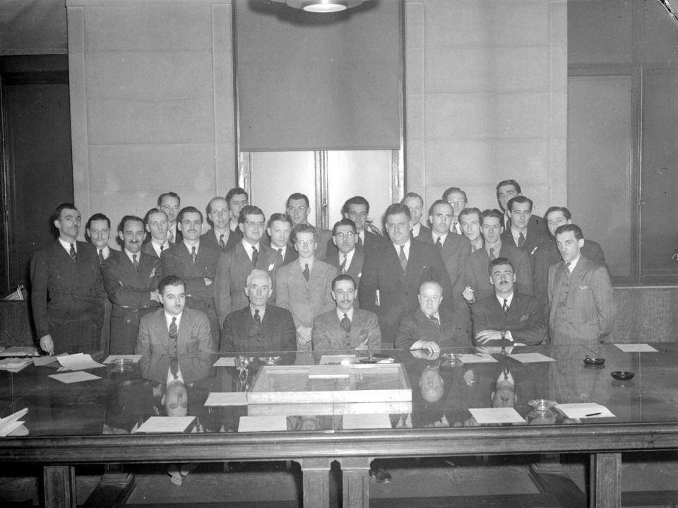 We see the members of the Chamber of Commerce, District of Montreal on Rue Saint-Jacques.